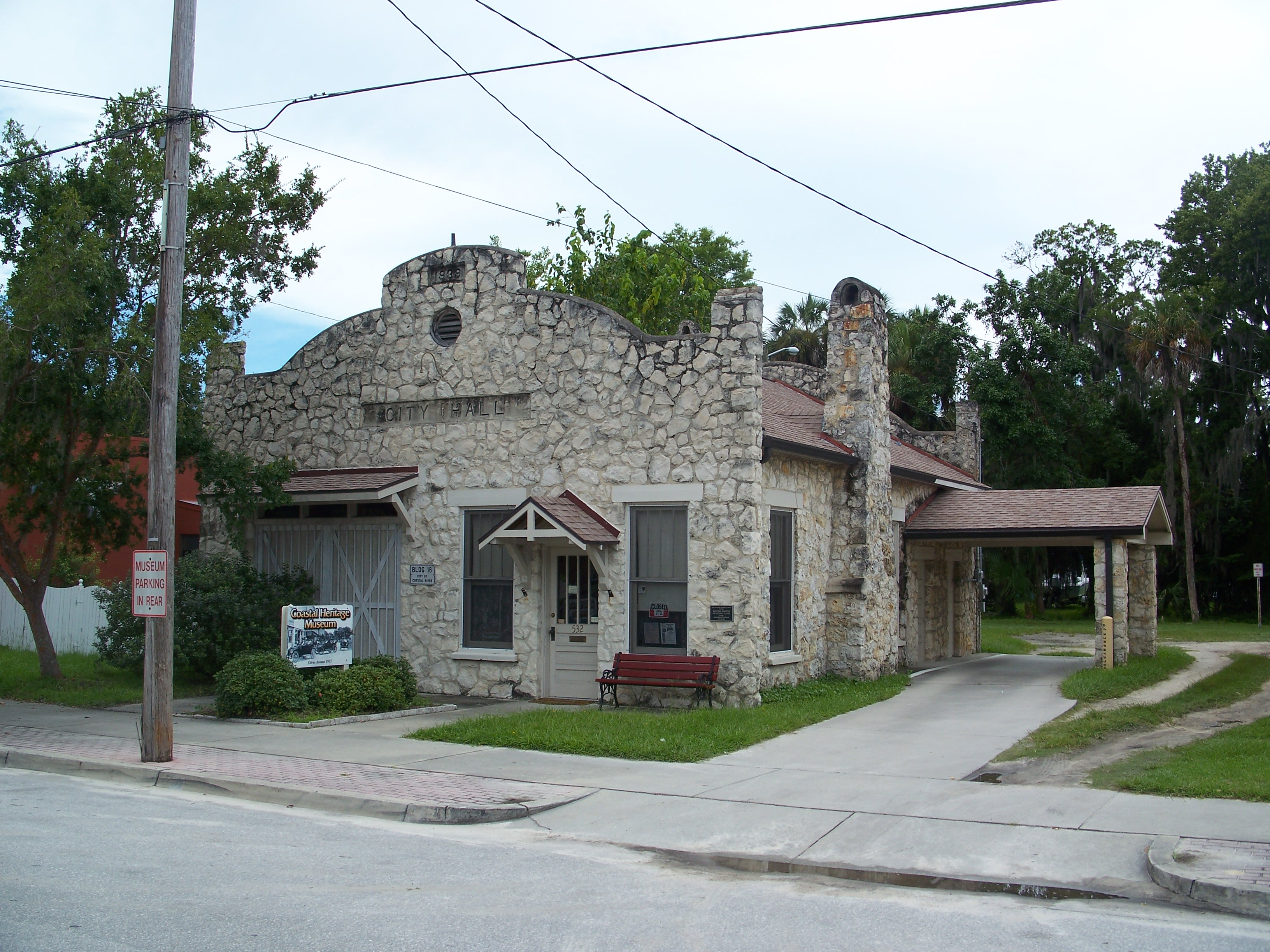 Crystal River, Florida: Crystal River Old City Hall